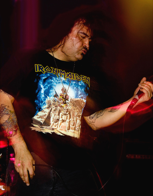 Lenzig Leal from the American band Cephalic Carnage, 2009.